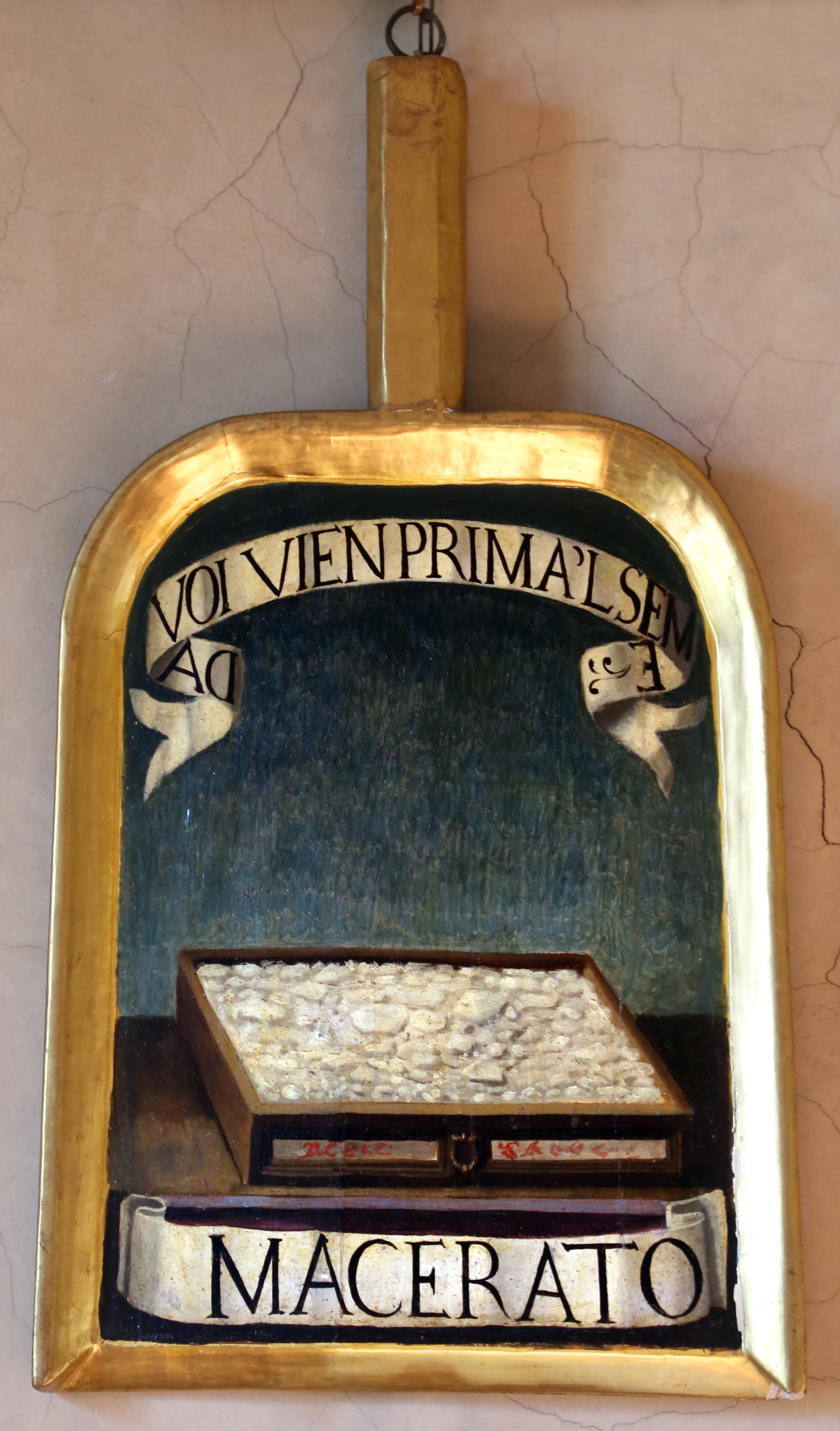 Shovels of Accademici della Crusca